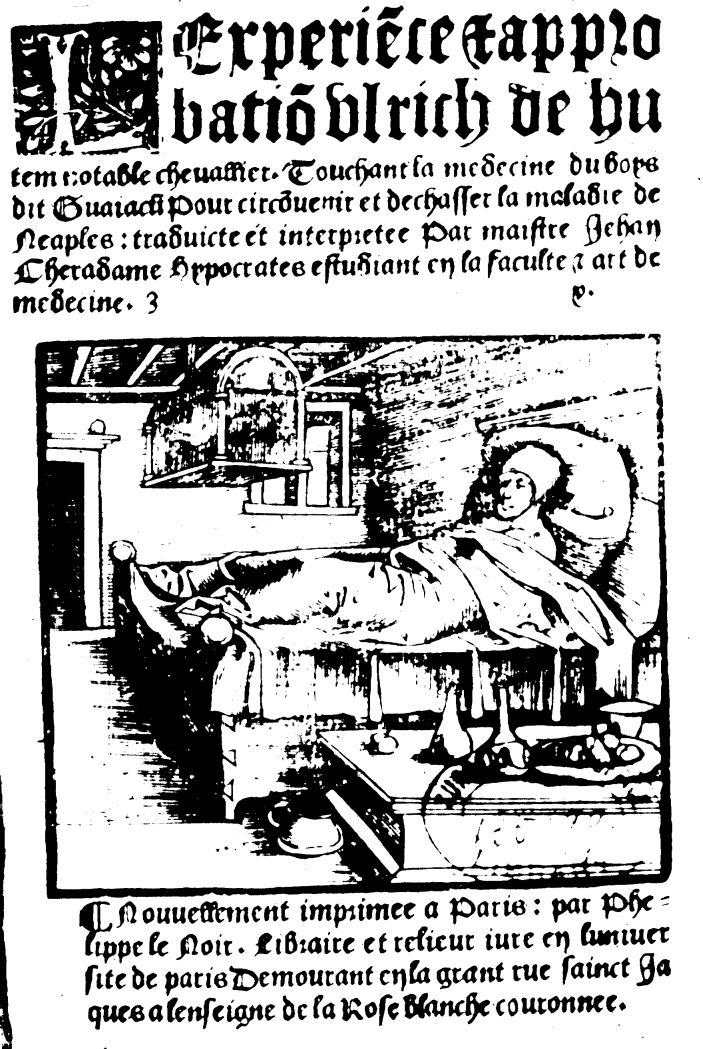 Title page of the French translation by Jean Chéradame (16th century) of De morbo gallico, a work on syphillis by Ulrich von Hutten (1488-1523)